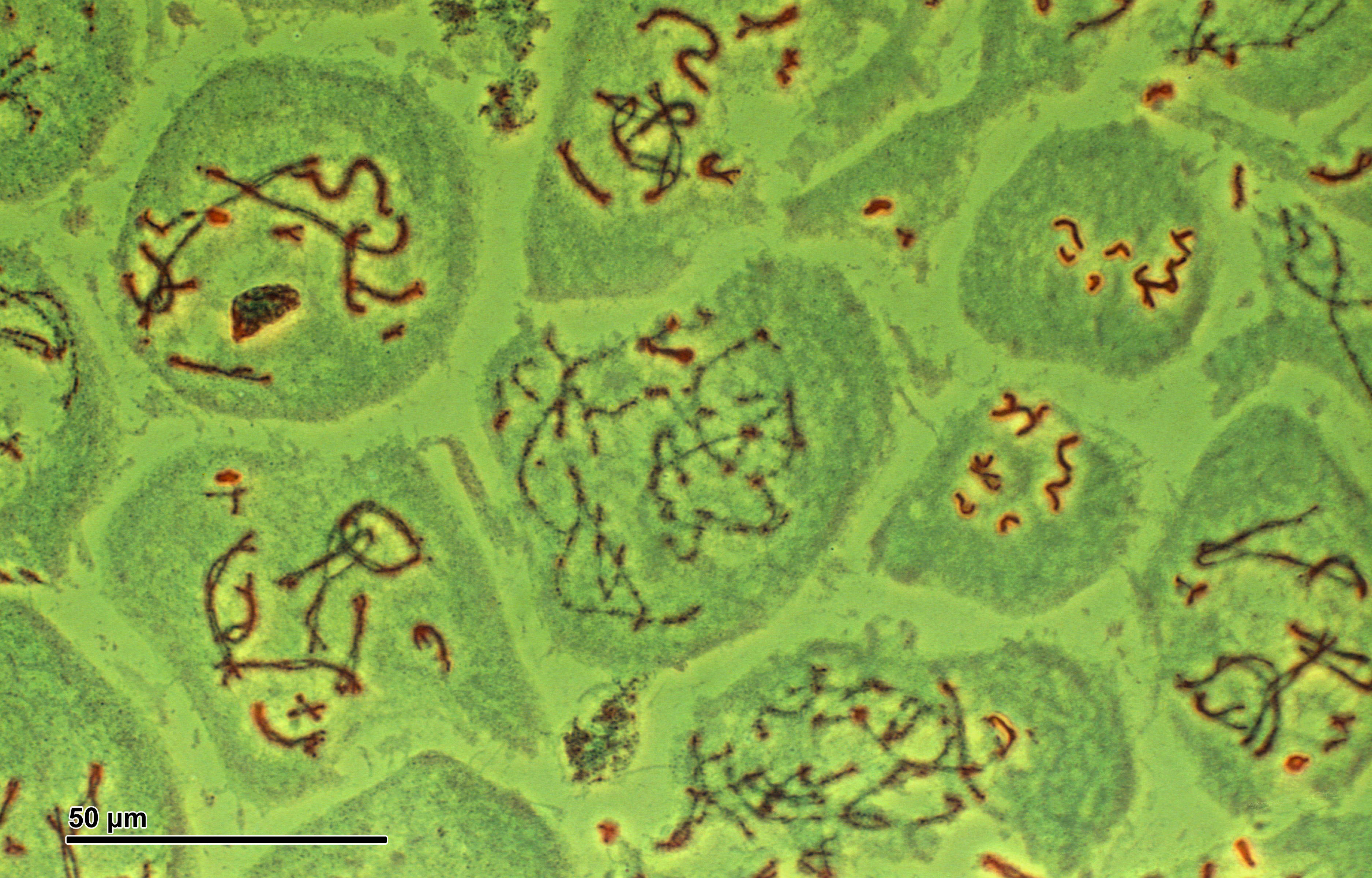 Meiosis: Grasshopper testes (gametes in metaphase II and telophase II). Optical microscopy technique: Positive phase contrast. Magnification: 1200x (for picture width 26 cm ~ A4 format).